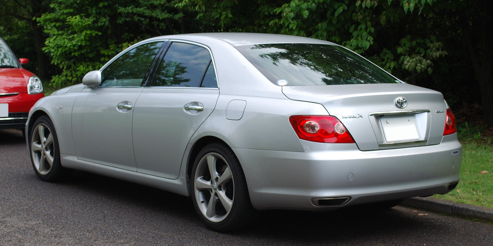 1st generation Toyota Mark X (2004/11 - 2006/10)